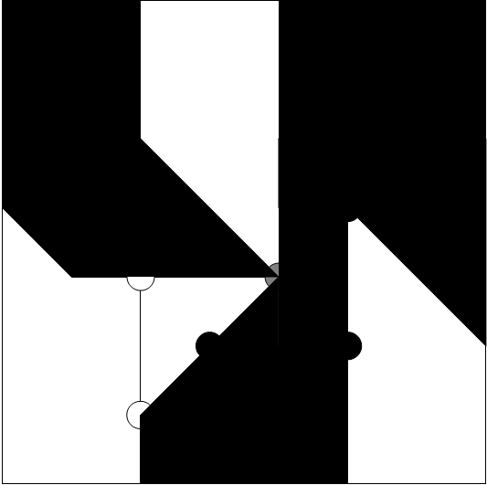 Stained Glass puzzle solved grid